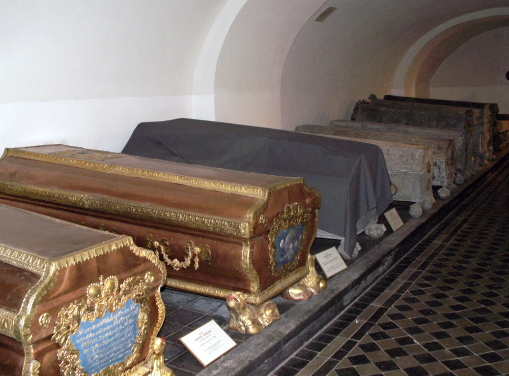 Sarcophagus in Jelgava Palace